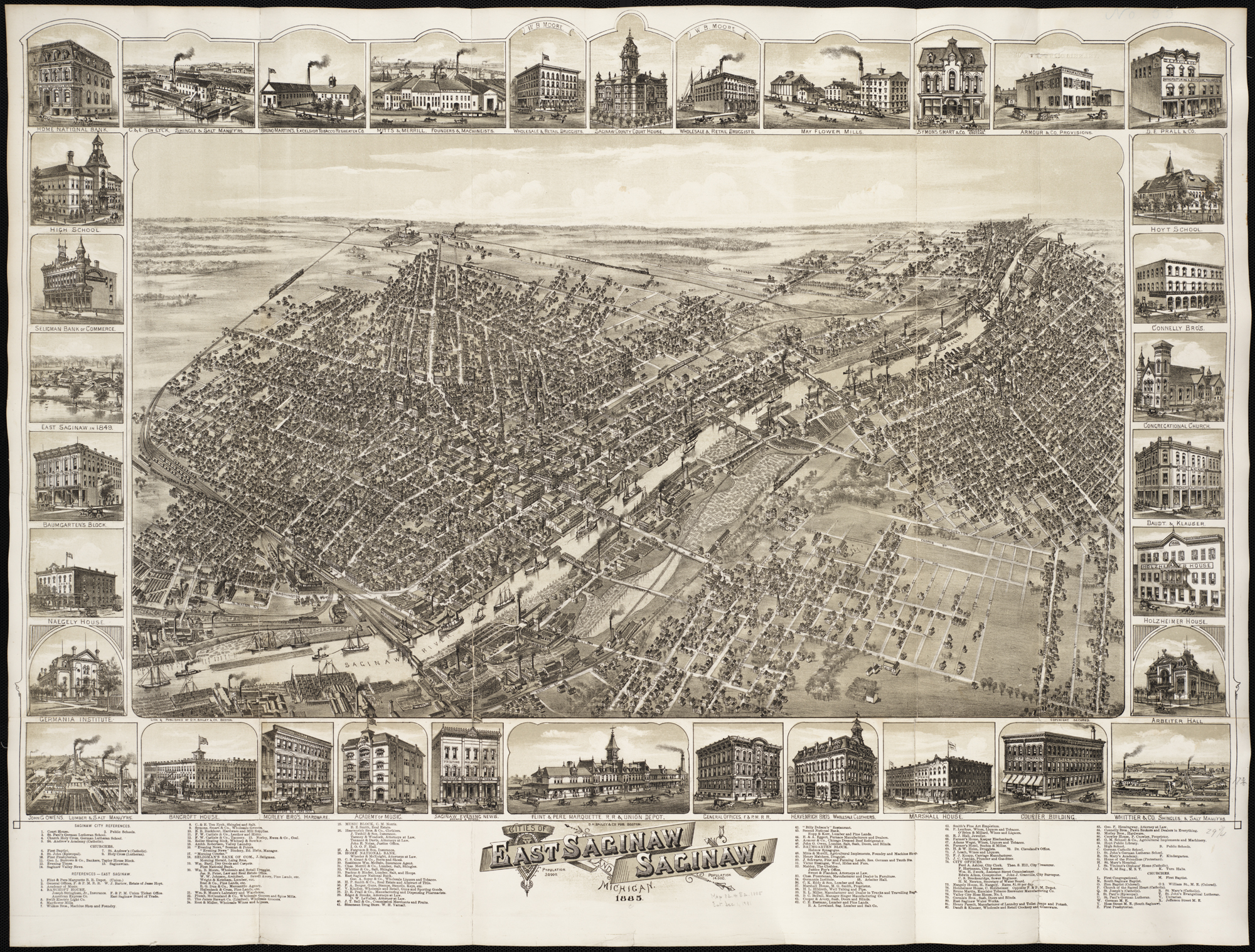 Zoom into this map at . Author: O.H. Bailey & Co. Publisher: O.H. Bailey & Co. Date: 1885. Location: Saginaw (Mich.) Scale: Not drawn to scale Call Number: G4114.S2A3 1885.O43